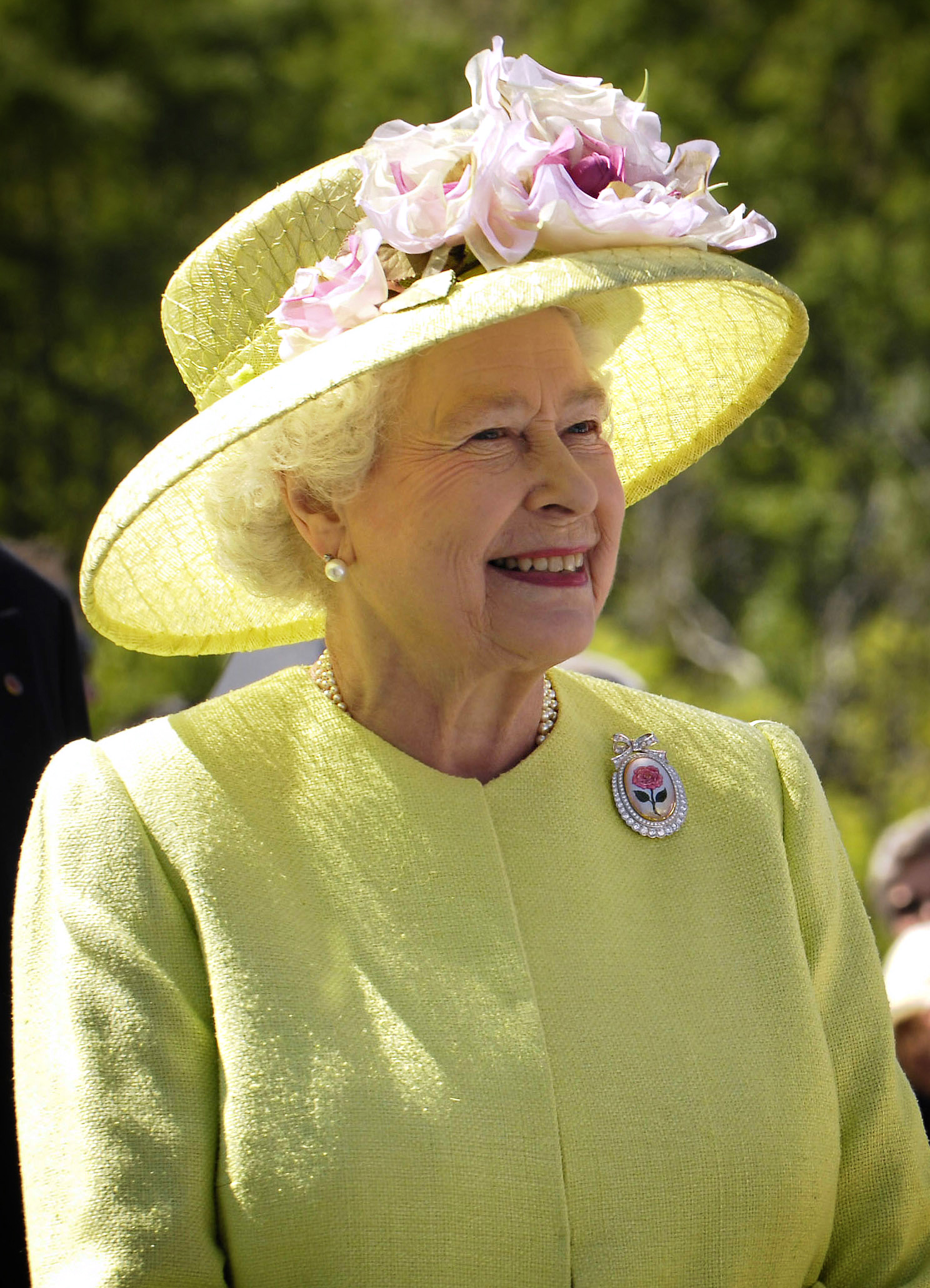 Her Majesty the Queen, aged 81, of the United Kingdom. Photo taken during a visit in NASA’s Goddard Space Flight Center. Greenbelt, Maryland, USA. Original Caption from NASA: “Queen Elizabeth II greets employees on her walk from NASA’s Goddard Space Flight Center mission control to a reception in the center’s main auditorium in Greenbelt, Maryland where she was presented with a framed Hubble image by Congressman Steny Hoyer and Senator Barbara Mikulski. Queen Elizabeth II and her husband, Prince Philip, Duke of Edinburgh, visited the NASA Goddard Space Flight Center as one of the last stops on their six-day United States visit.”